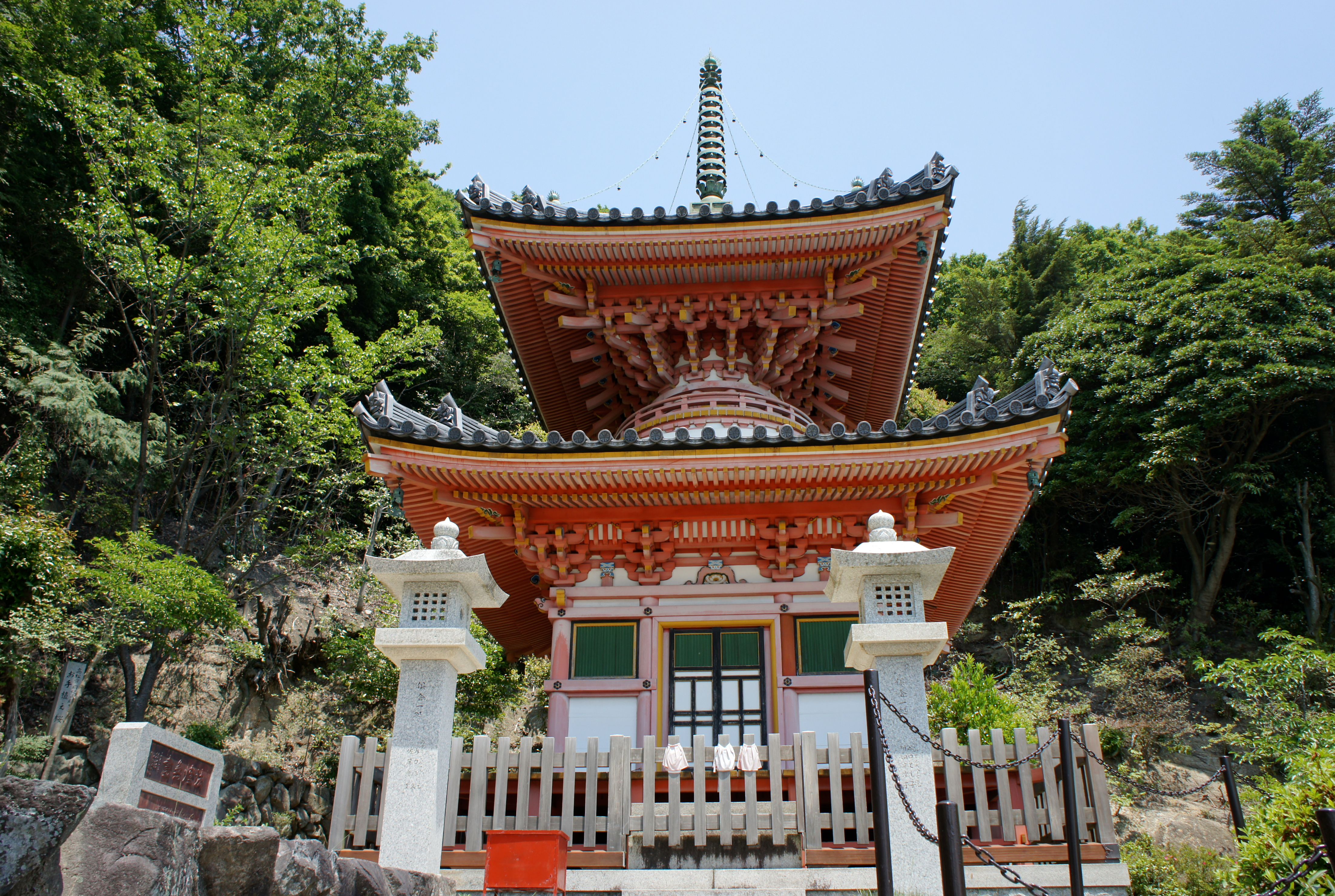 Kannō-ji in Nishinomiya, Hyogo prefecture, Japan